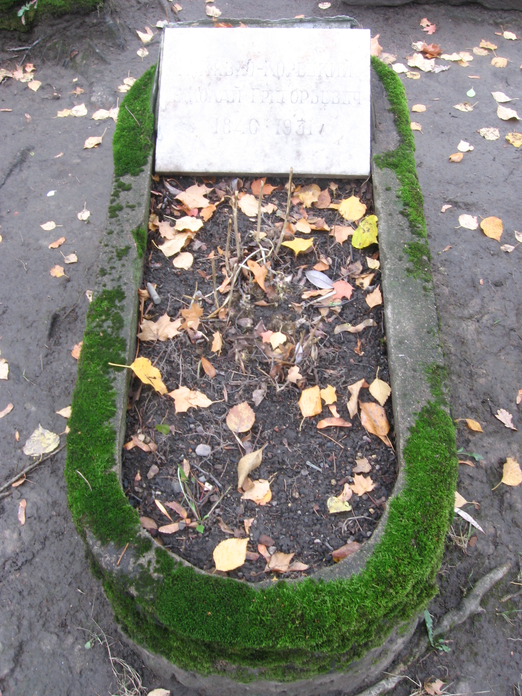 Grave of Nikolay Kulyabko-Koretsky